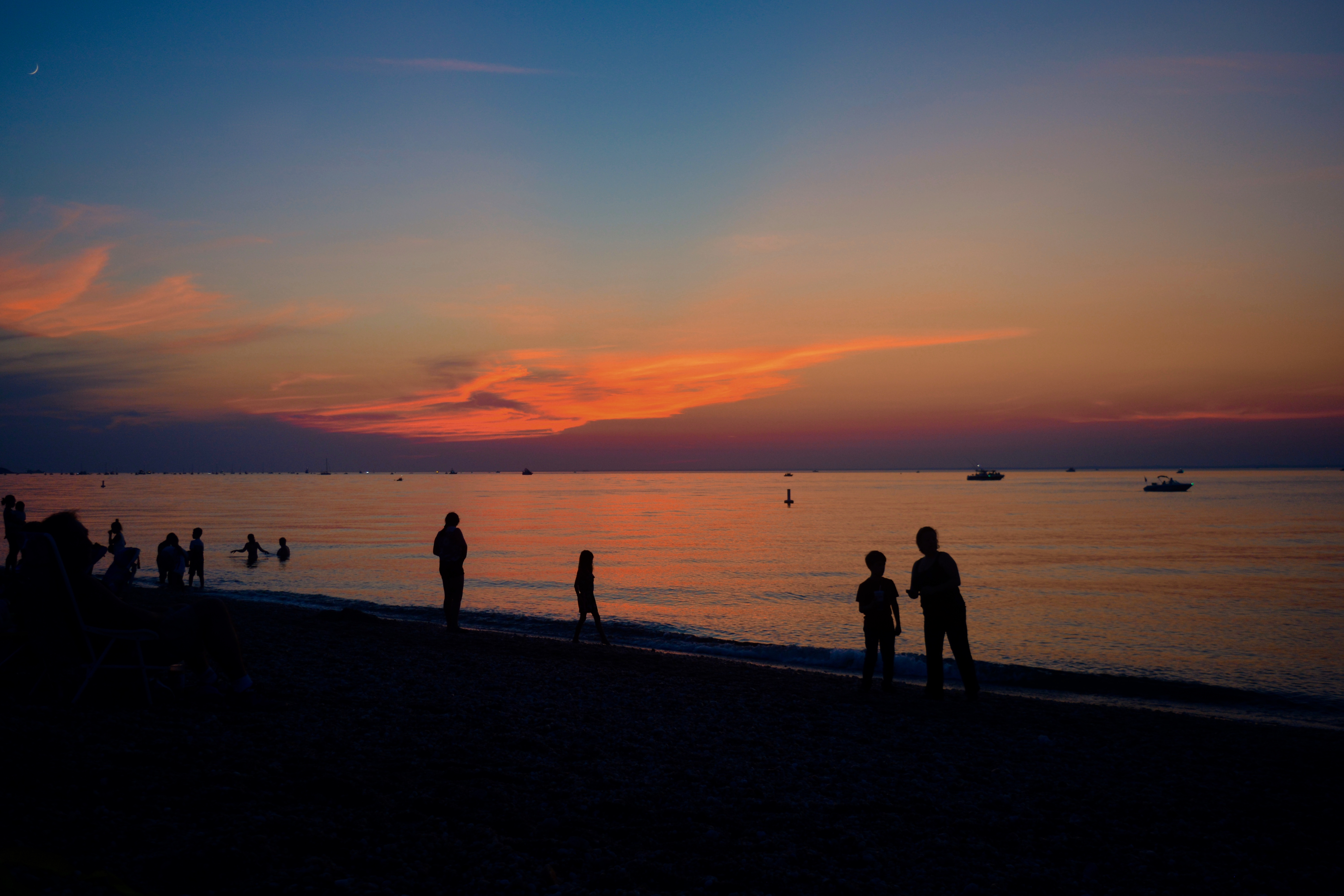 Photo by Joe Maddalone